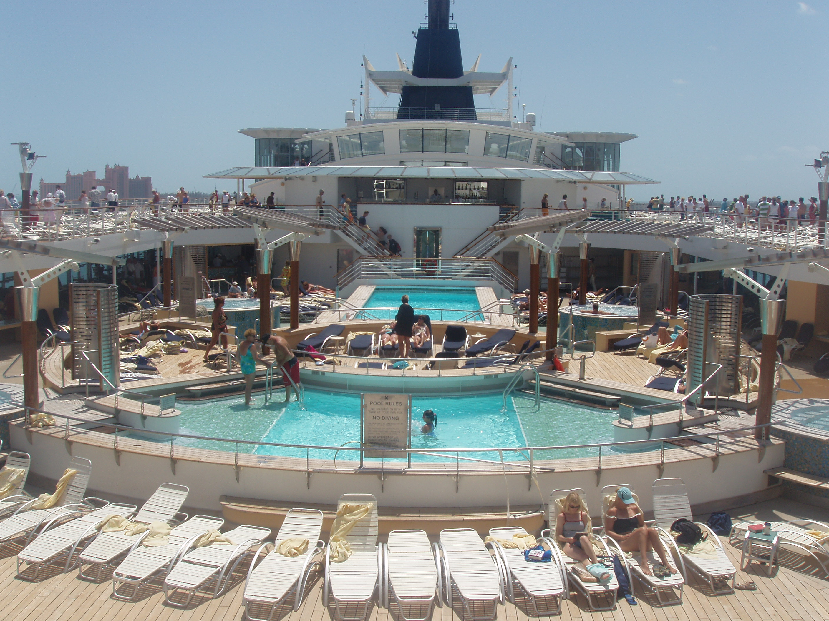 A view of the main pool aboard the Celebrity Millennium cruiseship.